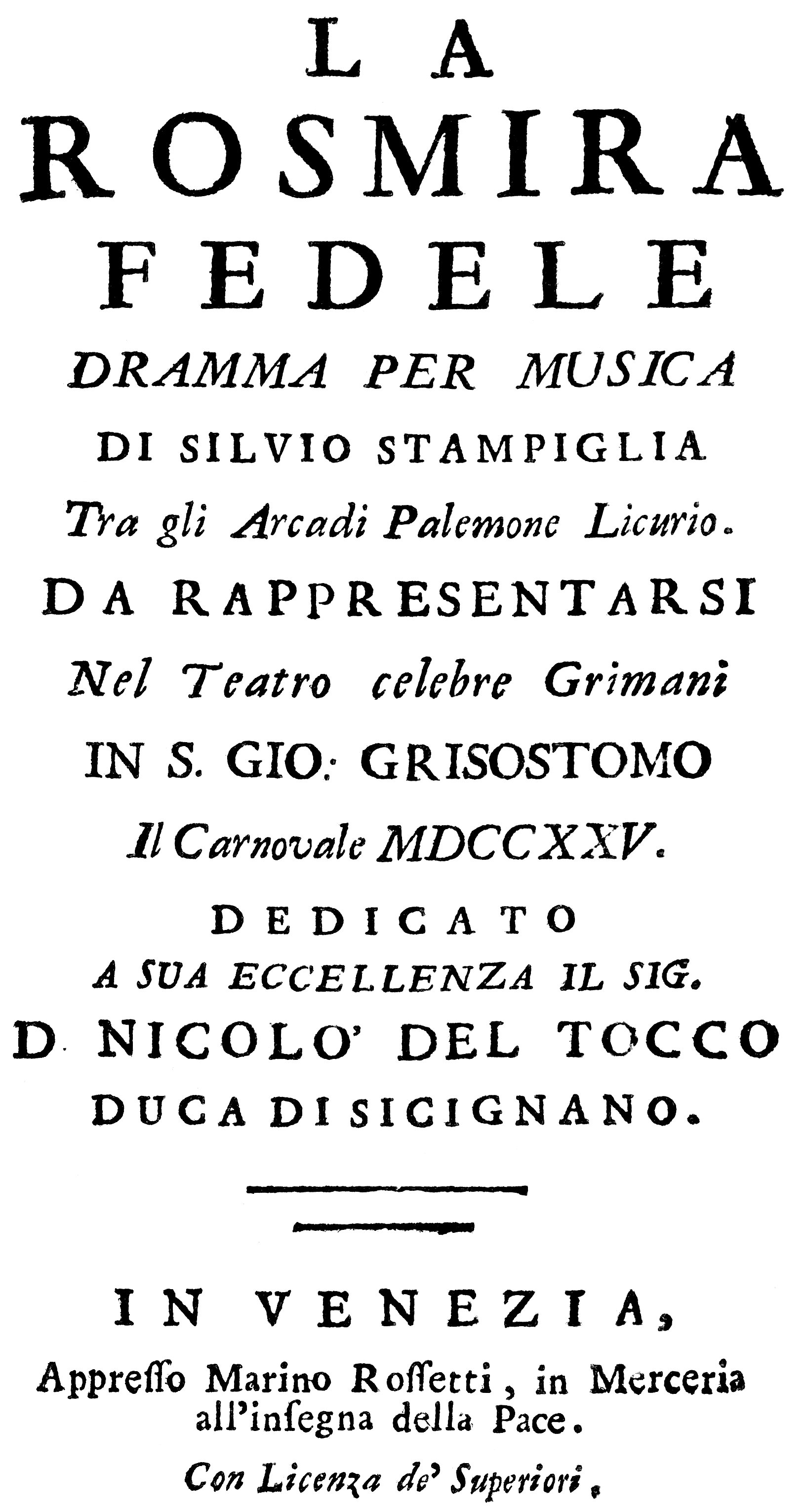 Leonardo Vinci - La Rosmira fedele - title page of the librettot - Venice 1725